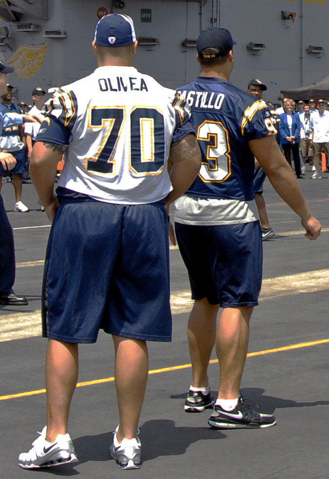 US Navy (USN) Capt. Terry Kraft (right), Commanding Officer (CO) of the USN Nimitz Class Aircraft Carrier USS RONALD REAGAN (CVN 76), throws a deep pass to one of his USN Sailors while they practice with members of the San Diego Chargers during their visit aboard his ship. U.S. Navy official photo by Mass Communication Specialist 3rd Class Marc Rockwell-Pate (RELEASED)